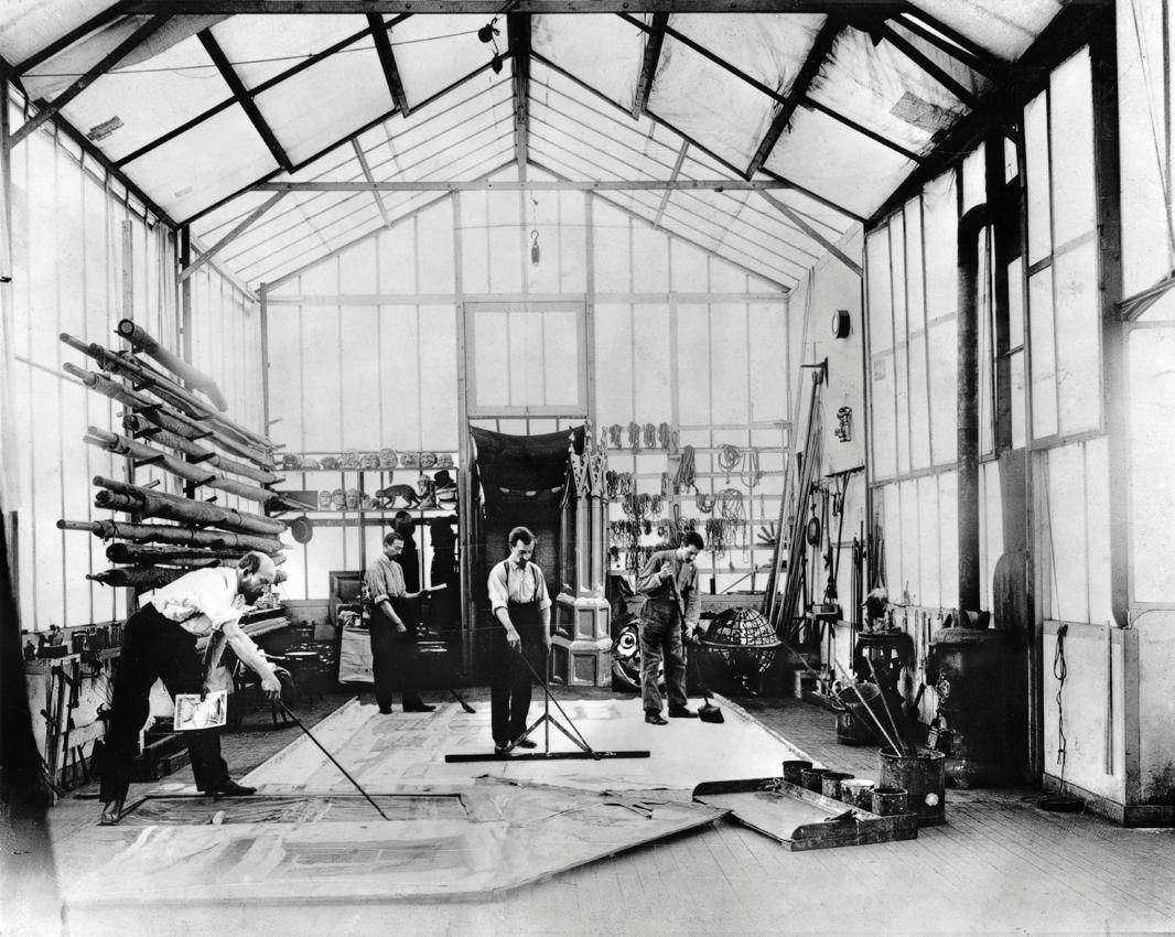 Georges Méliès (far left) in his original Star-Film studio in Montreuil